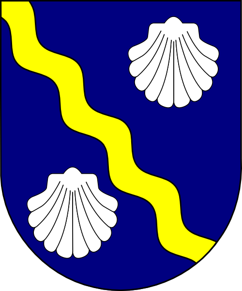 Coat of arms (shield only) of Jakob Weinbacher, auxiliary bishop of Vienna (1962 - 1985). Based on book illustration.